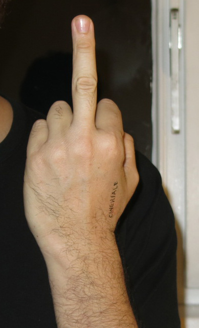 Image depiction of "The Finger."